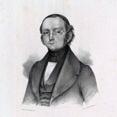 Depicted person: Ernst Julius Hentschel